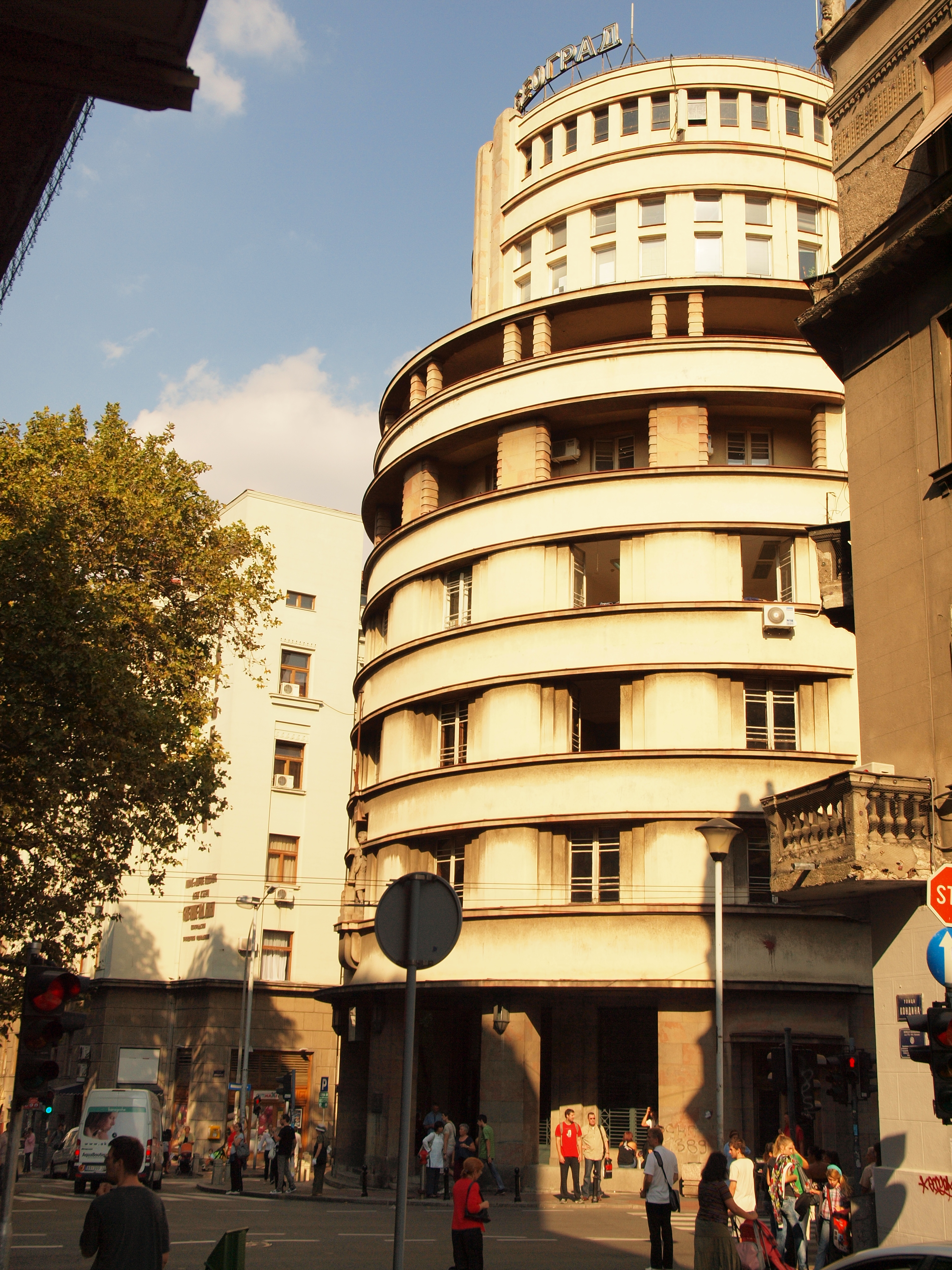 radio beograd headquarters